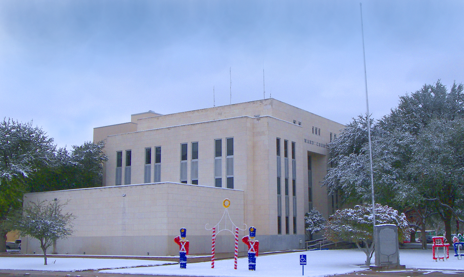 The Ward County Courthouse, 400 S Allen, Monahans, Texas, United States. It was added to the National Register of Historic Places on July 8, 1982.